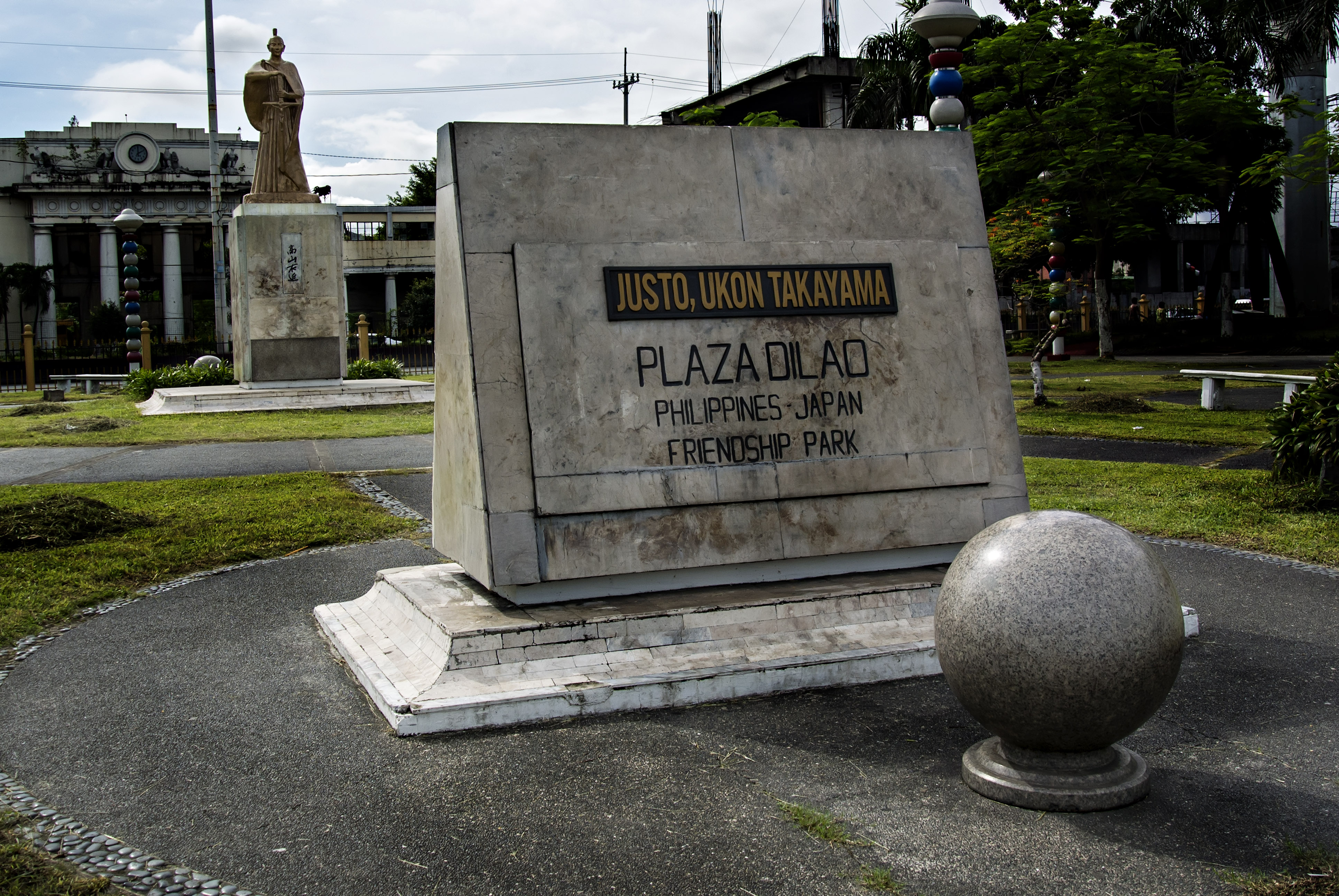 Plaza Dilao is located in Paco, Manila, Philippines. The status of Samurai leader Justo Takayama is at the center of the park.